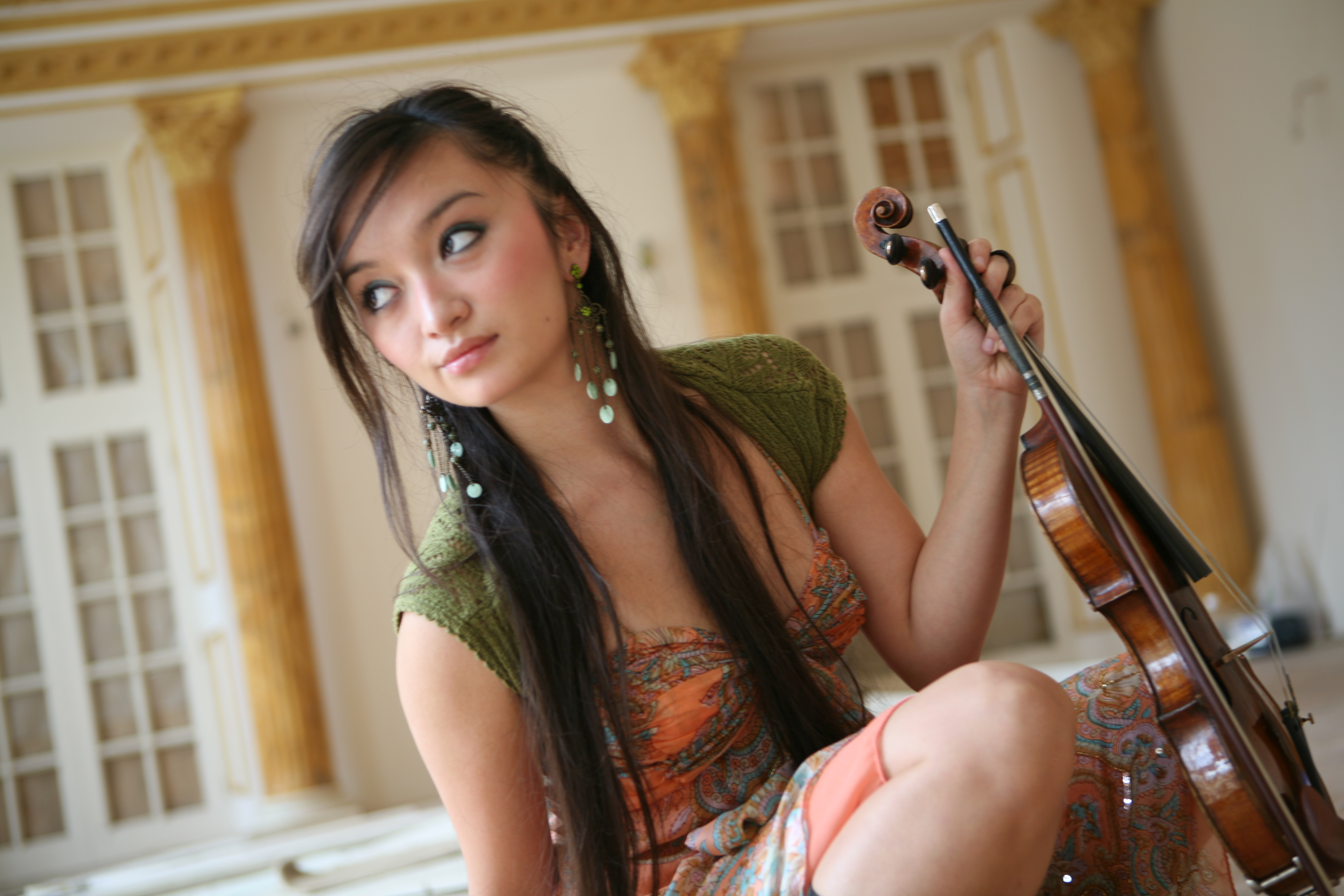 Violinist Diana Yukawa (ダイアナ 湯川).